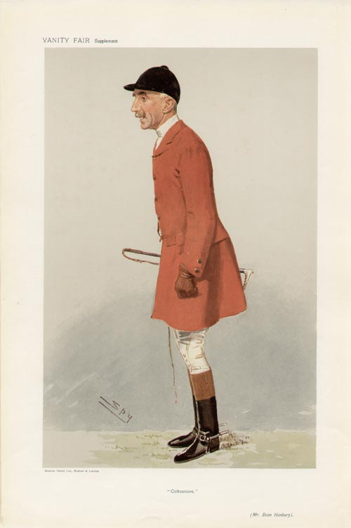 Caricature of Mr Evan Hanbury. Caption read "Cottesmore".